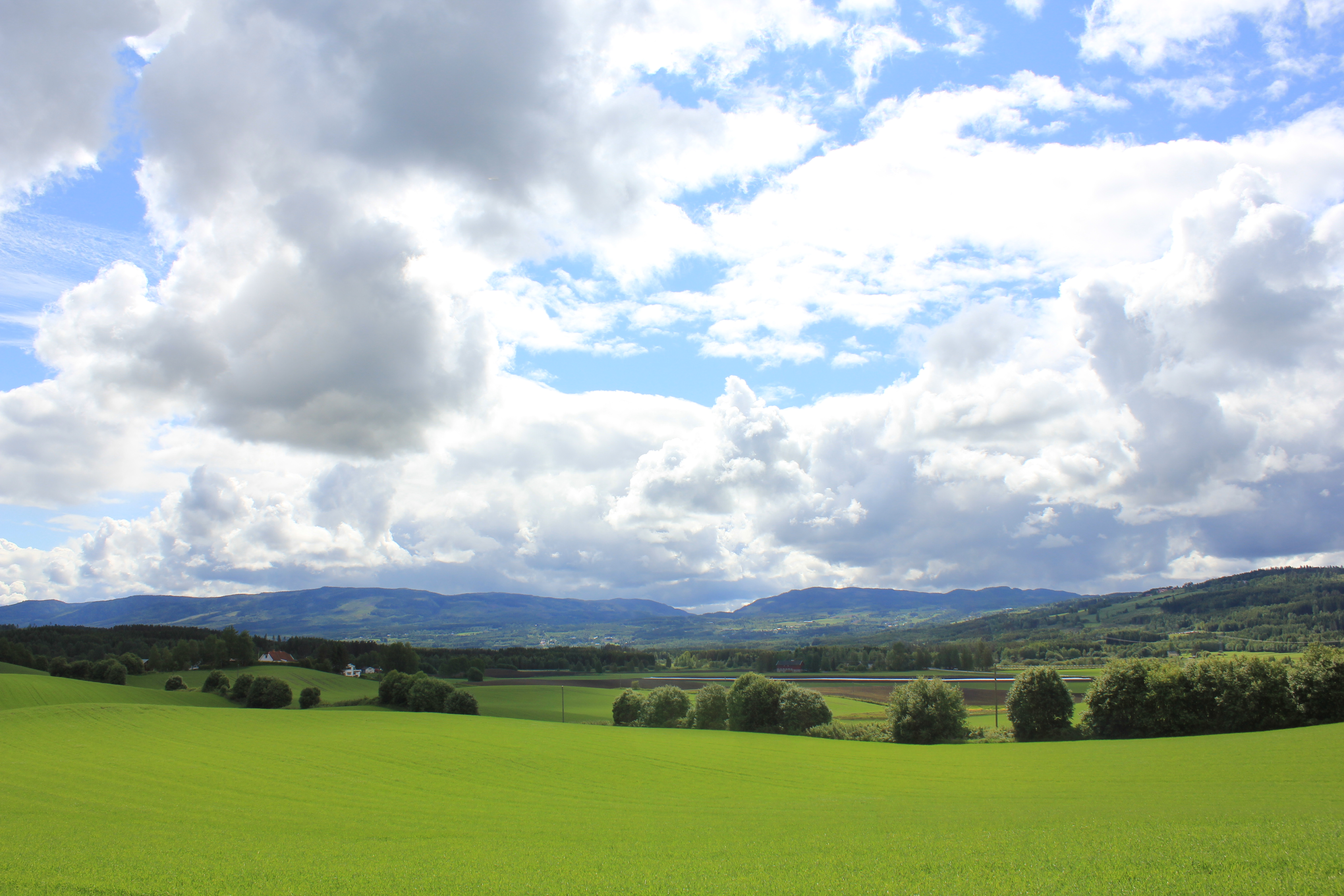 The landscape of Østre Toten, Oppland, Norway. Totenåsen Hills in the background. Totenbygdene mot Totenåsen.